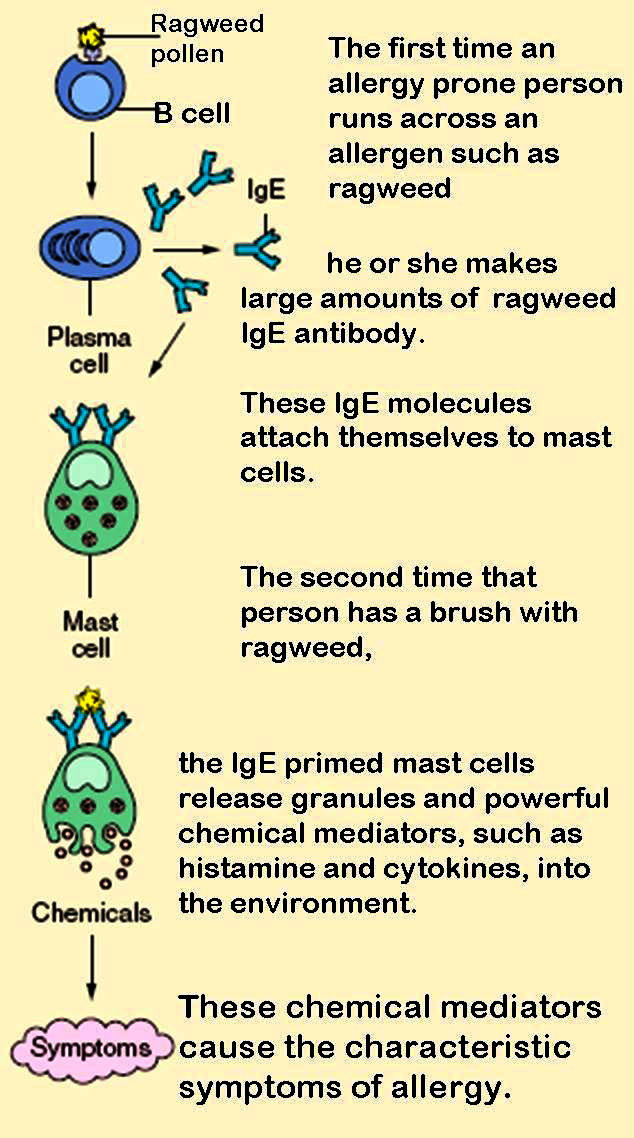 Mast cells are involved in allergy. Allergies such as pollen allergy are related to the antibody known as IgE. Like other antibodies, each IgE antibody is specific; one acts against oak pollen, another against ragweed.